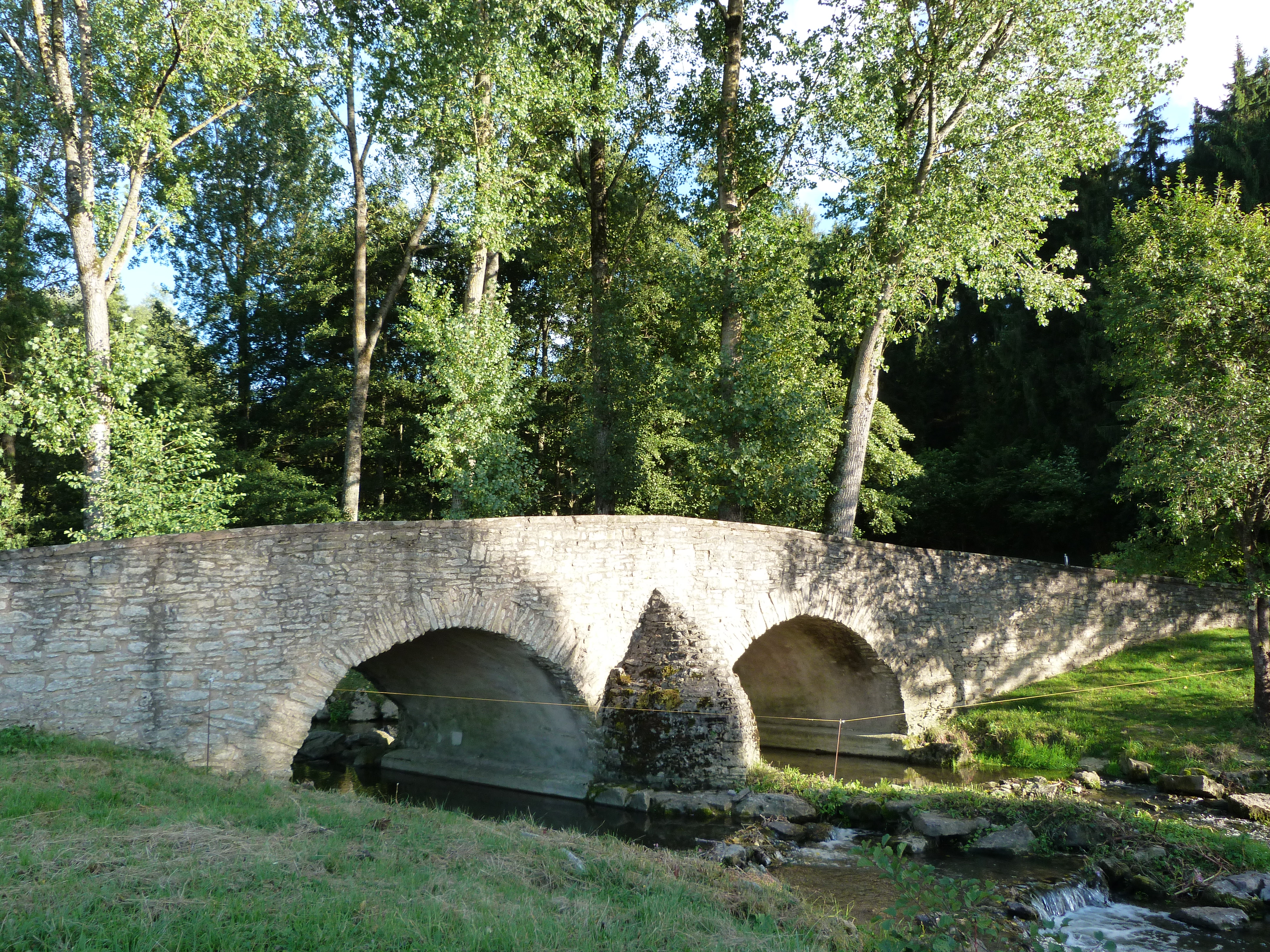 It is indexed in the Base Mérimée, a database of architectural heritage maintained by the French Ministry of Culture, under the references PA00085267 and IA67006048 .